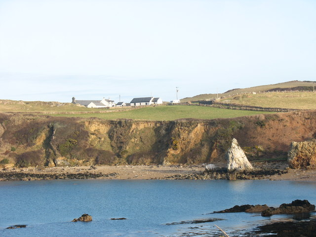 Sea stack below Llanbadrig Church This stack, the remnant of a sea arch which collapsed in the early 1900s, is known as Y Ladi Wen (the white lady) because of its anthropomorphous characteristics.